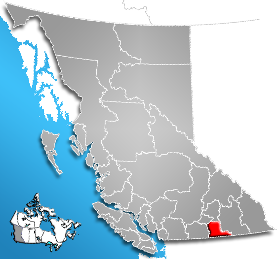 Location of Regional District of Kootenay Boundary, British Columbia